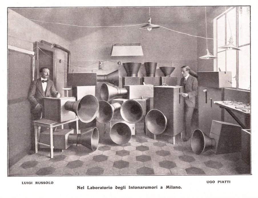 Instruments for futuristic music, called "Bruitism", partly electrically operated, built by Russolo 1913